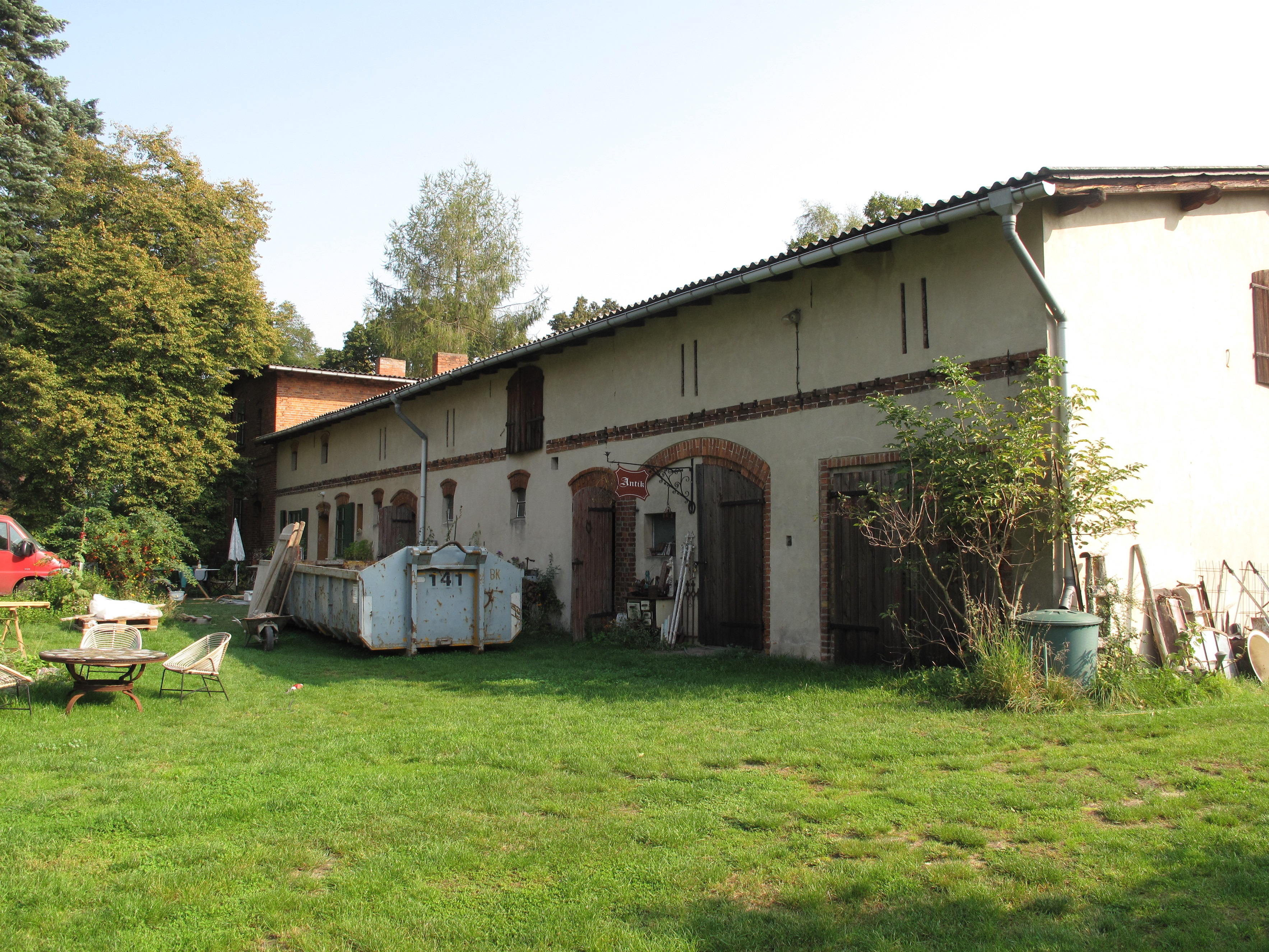 Stable of the listed former forestry „Alte Försterei Briescht“. Briescht is a part of the municipality Tauche in the District Oder-Spree, Brandenburg, Germany. Listed are: Forestry with forester's lodge, horse stable, two barns and earth cellar. The forestry was built around 1900. The operating was finished in 1990. Since 2009 privatized, the „Alte Försterei Briescht“ is a place for arts, culture and recreation, today.